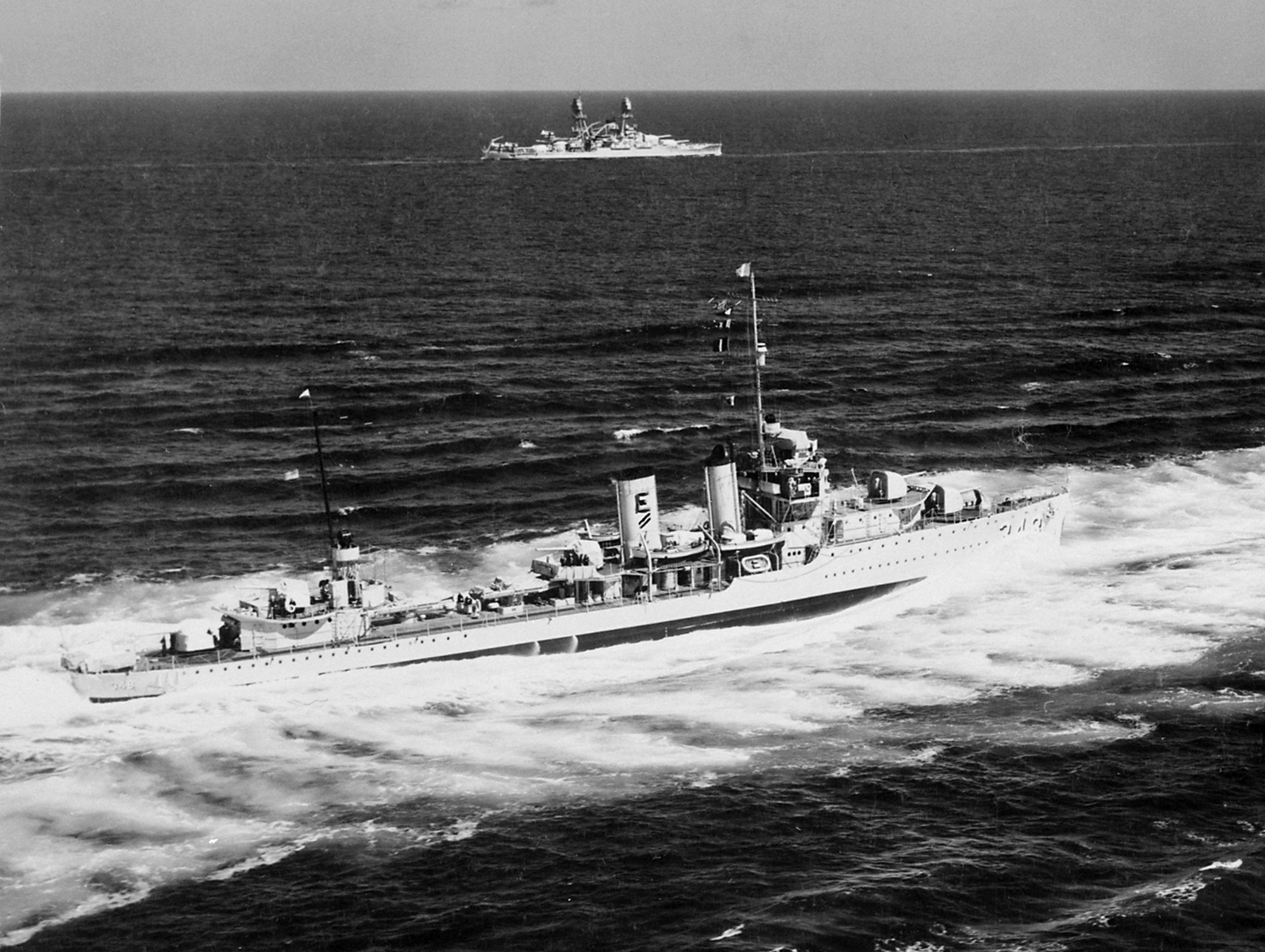 The U.S. Navy destroyer USS Farragut (DD-348) underway on 27 September 1939. In the background is a Pennsylvania-class battleship.